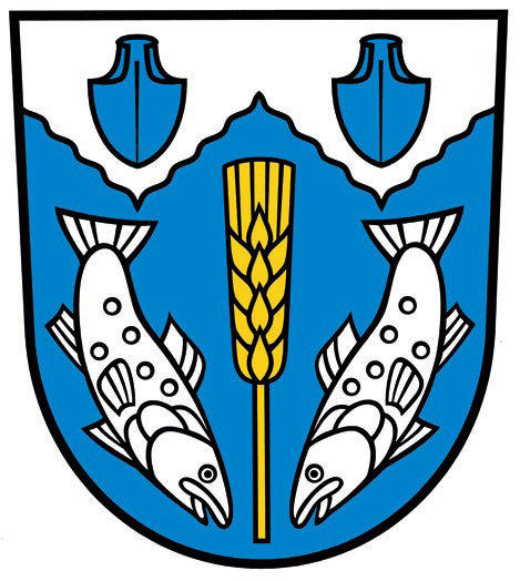 Coat of arms of Wünsdorf, Part of Zossen